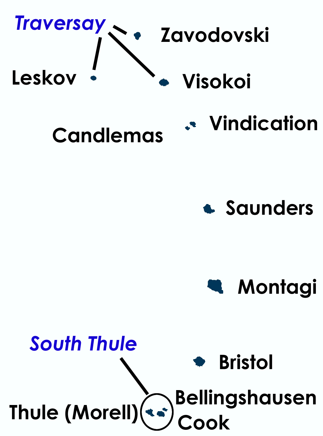 Map of South Sandwich Islands with names